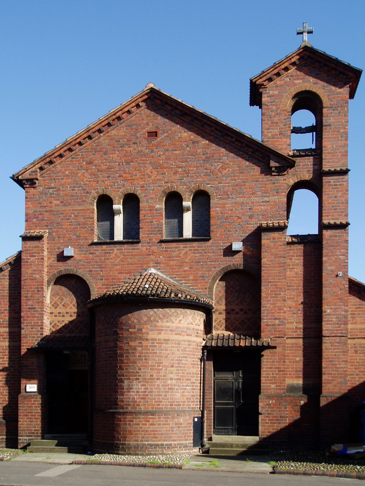 Former parish church of St Basil, Heath Mill Lane, Digbeth, Birmingham, seen from the northwest